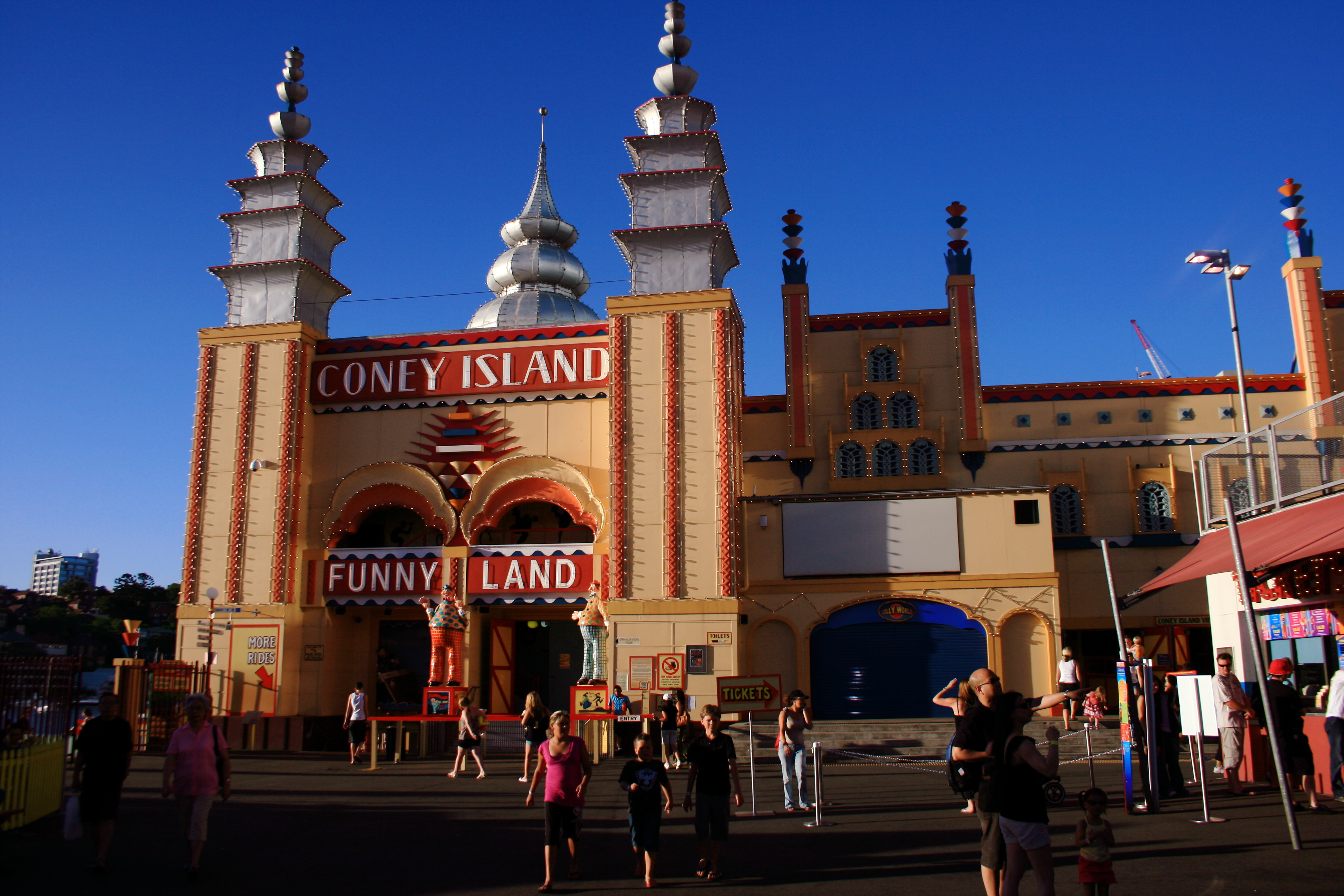 Luna Park, Sydney's Coney Island